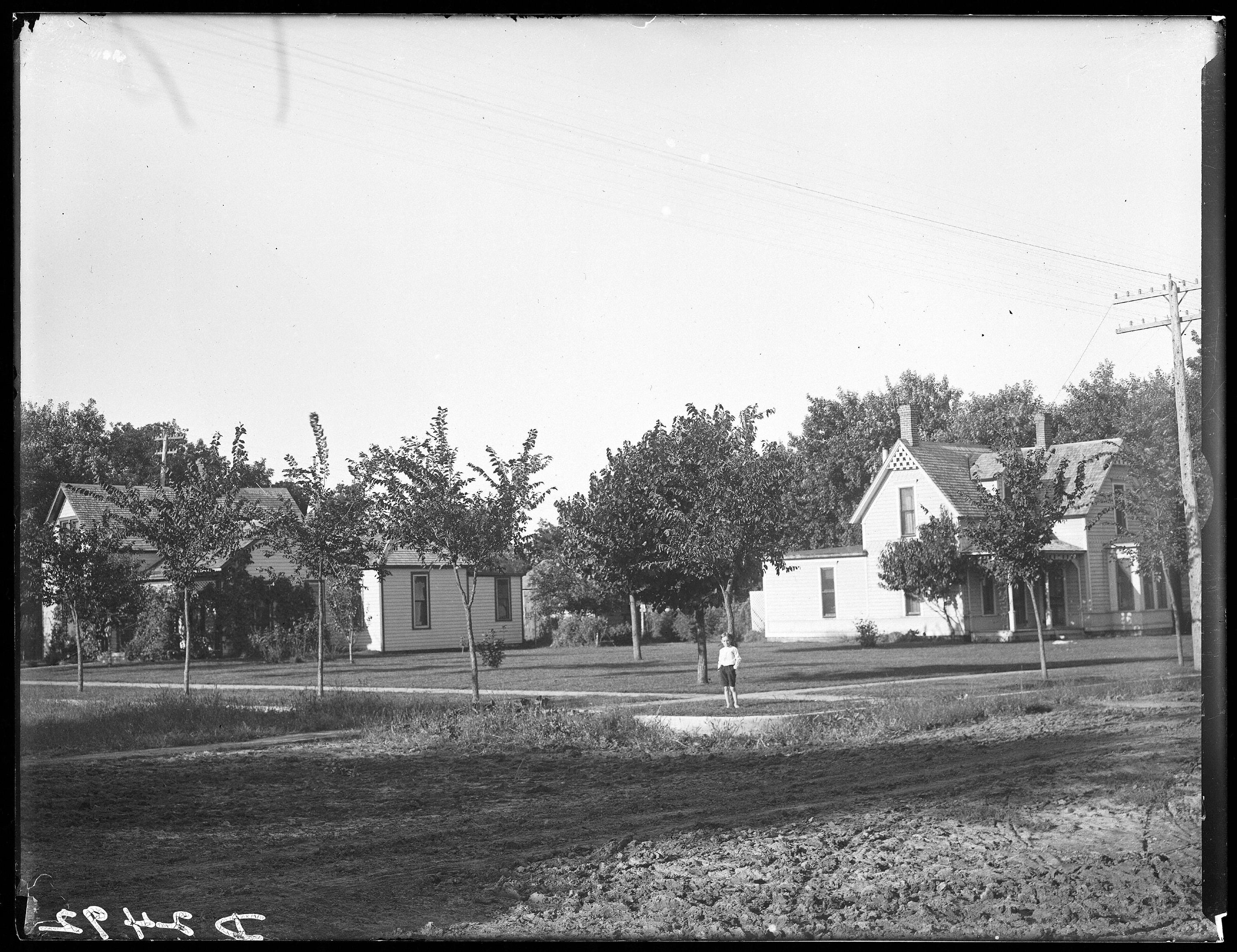 Street scene, Kearney, Nebraska. c. 1907